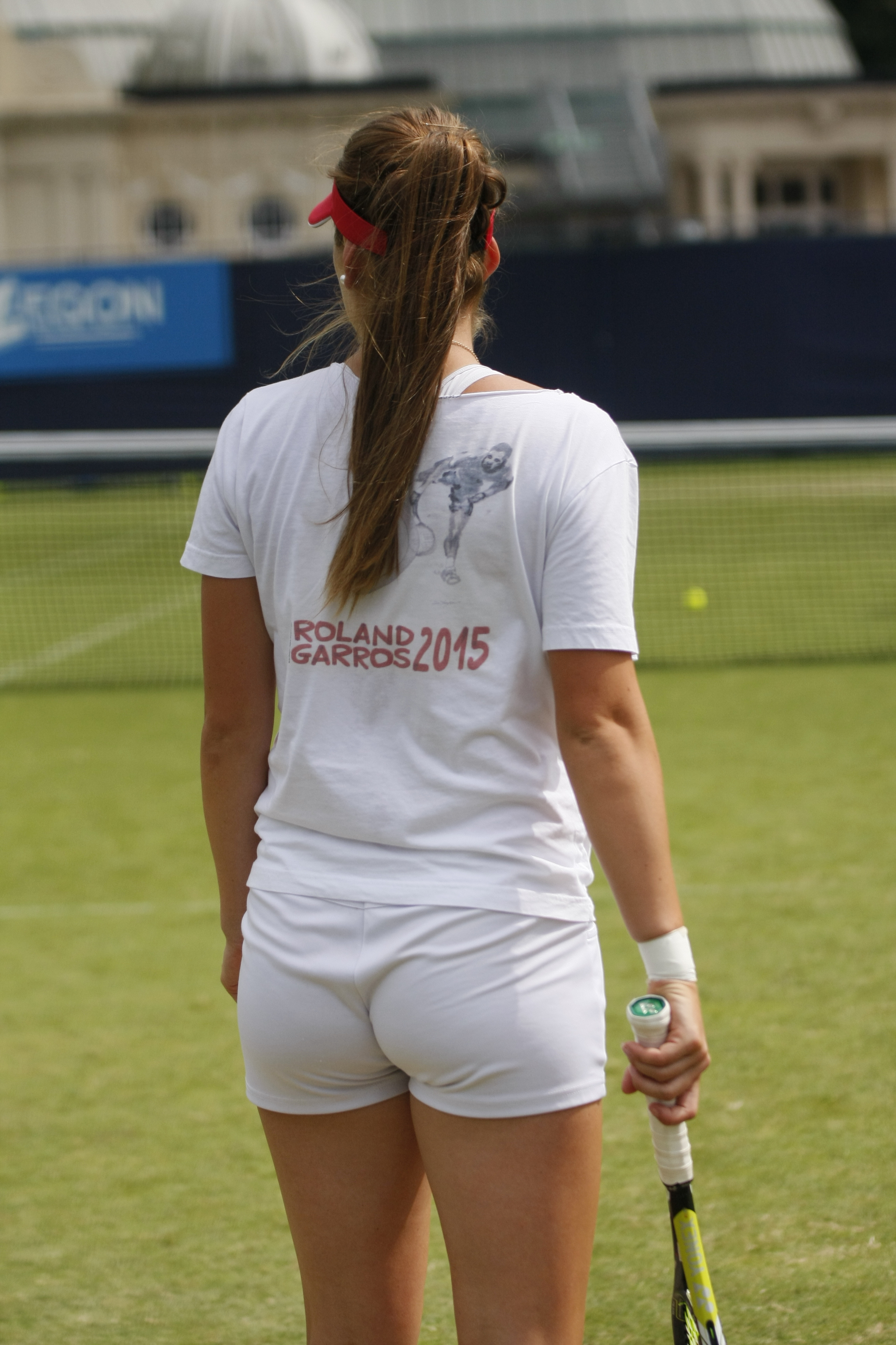 Agnieszka Radwańska, Aegon International Tennis, Devonshire Park, Eastbourne June 2015